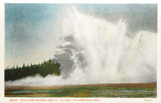 Historic image of Excelsior Geyser erupting in 1890 showing its full height.